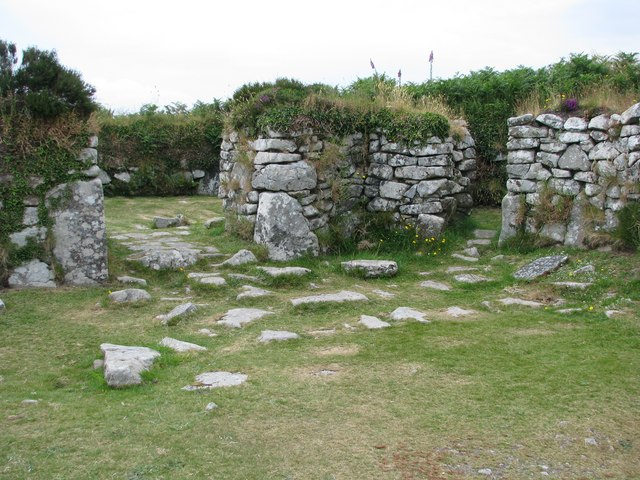 Chysauster ancient village